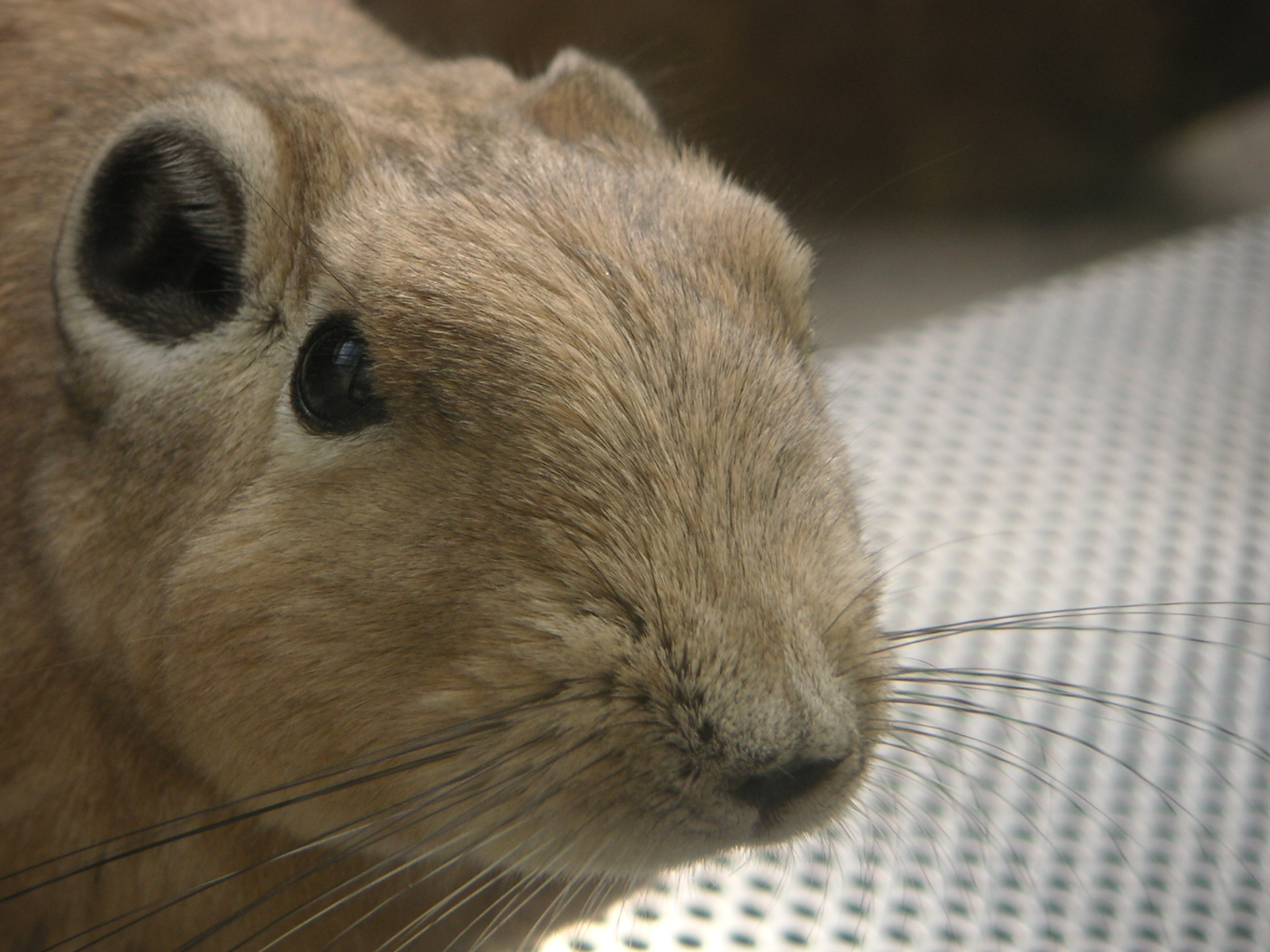 Common gundi (Ctenodactylus gundi). Young, head.